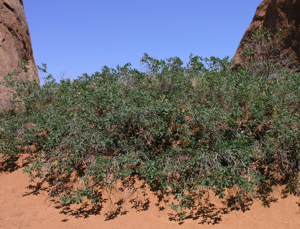 Photo taken by Daniel Mayer in late June 2005.